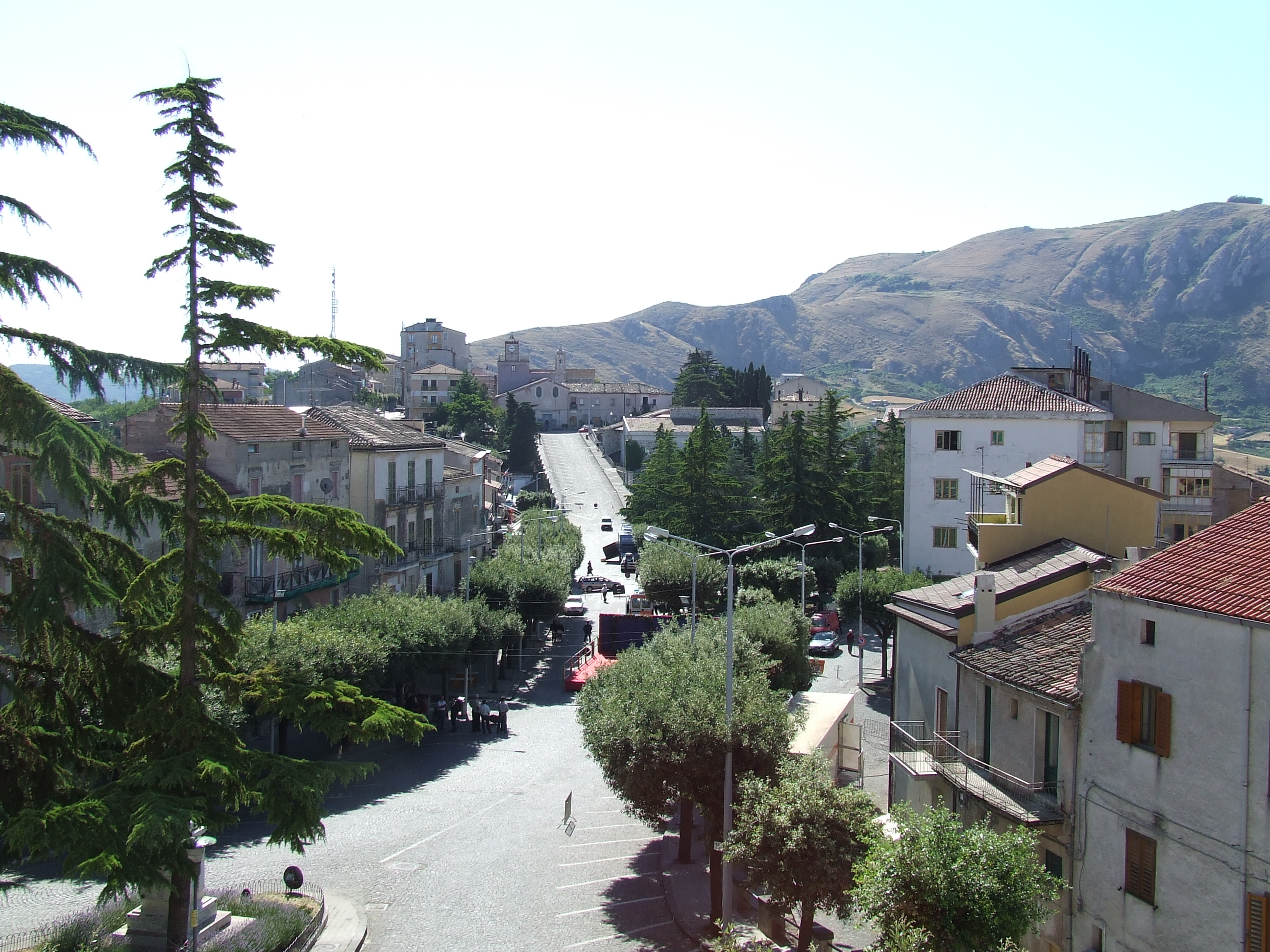 Piazza Lago in Caggiano, view from the Castle.